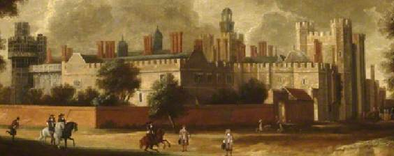 Nonsuch Palace from the North East, attributed to Hendrick Danckerts, circa 1666–1679, oil on canvas, 50 x 105 cm (on permanent display at Epsom Town Hall).